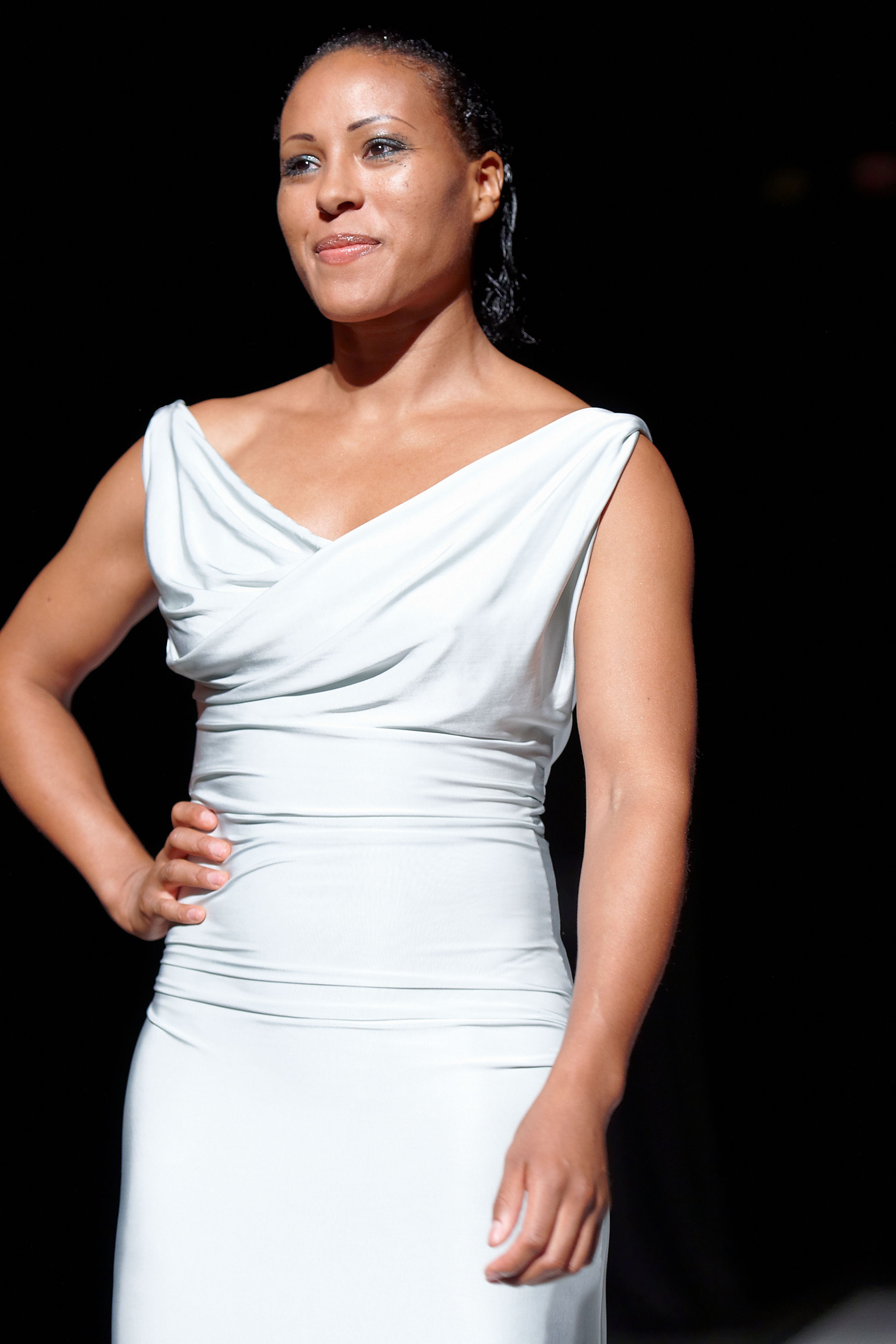 Cecilia Brækhus debut as model during Oslo Fashion Show. Here in a dress from Norwegian designer Nadya Khamitskaya. Hilton DoubleTree Hotel / Christiania Theatre, Oslo, Norway.